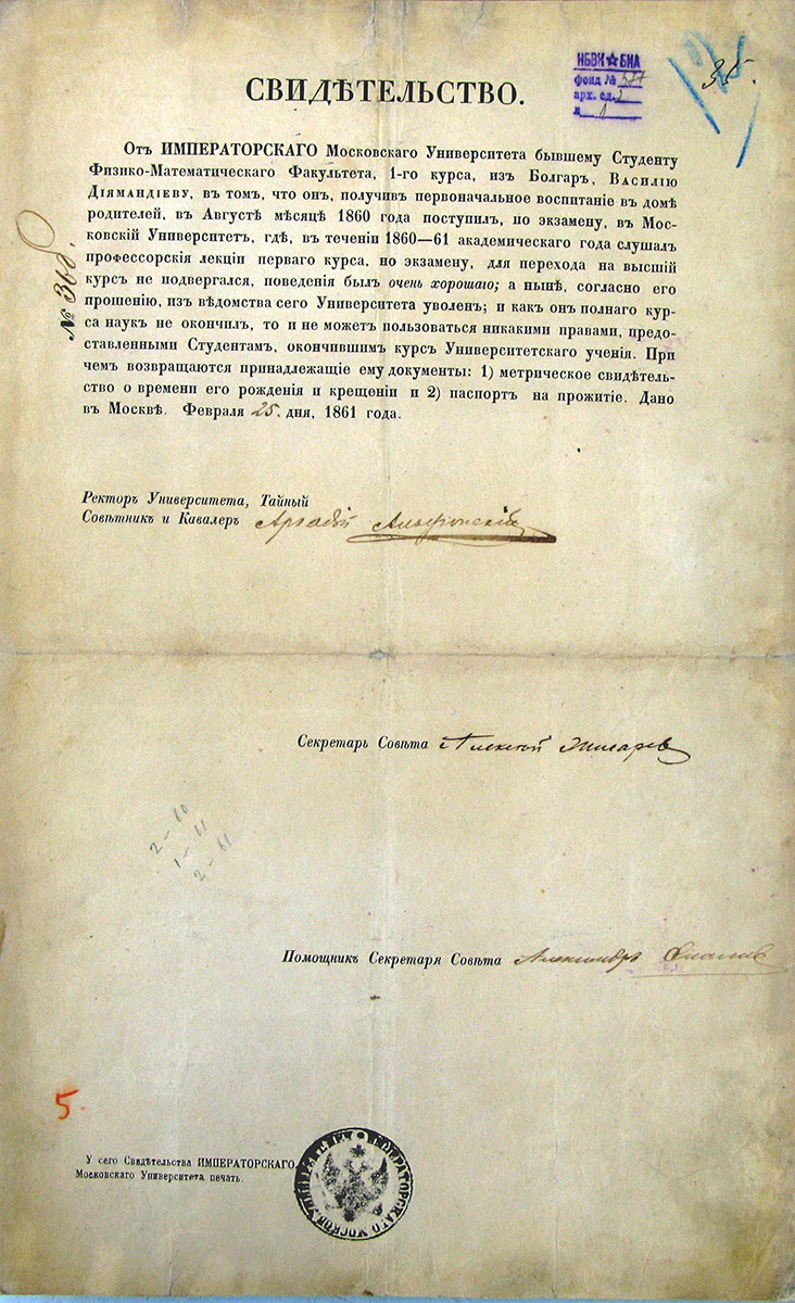 Certificate issued to the Bulgarian student Vasil Diamandiyev, by the rector of the Moscow University for the submission of his personal documents at his request.